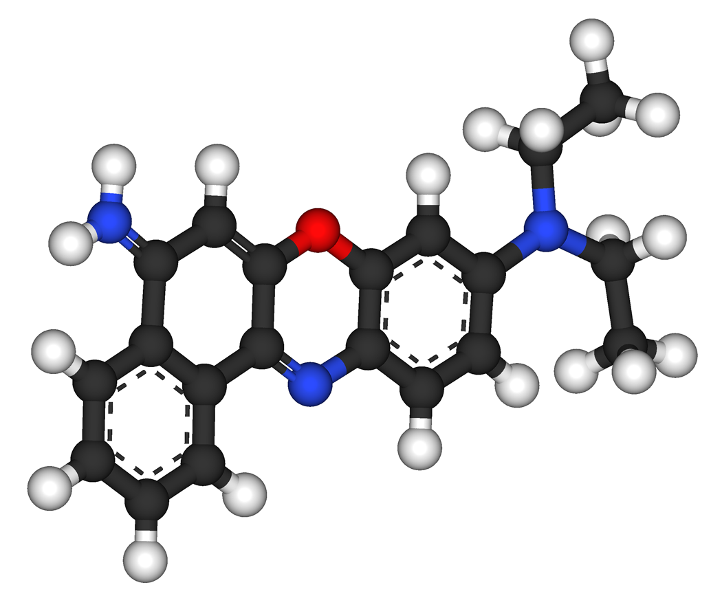 Ball-and-stick model of Nile blue